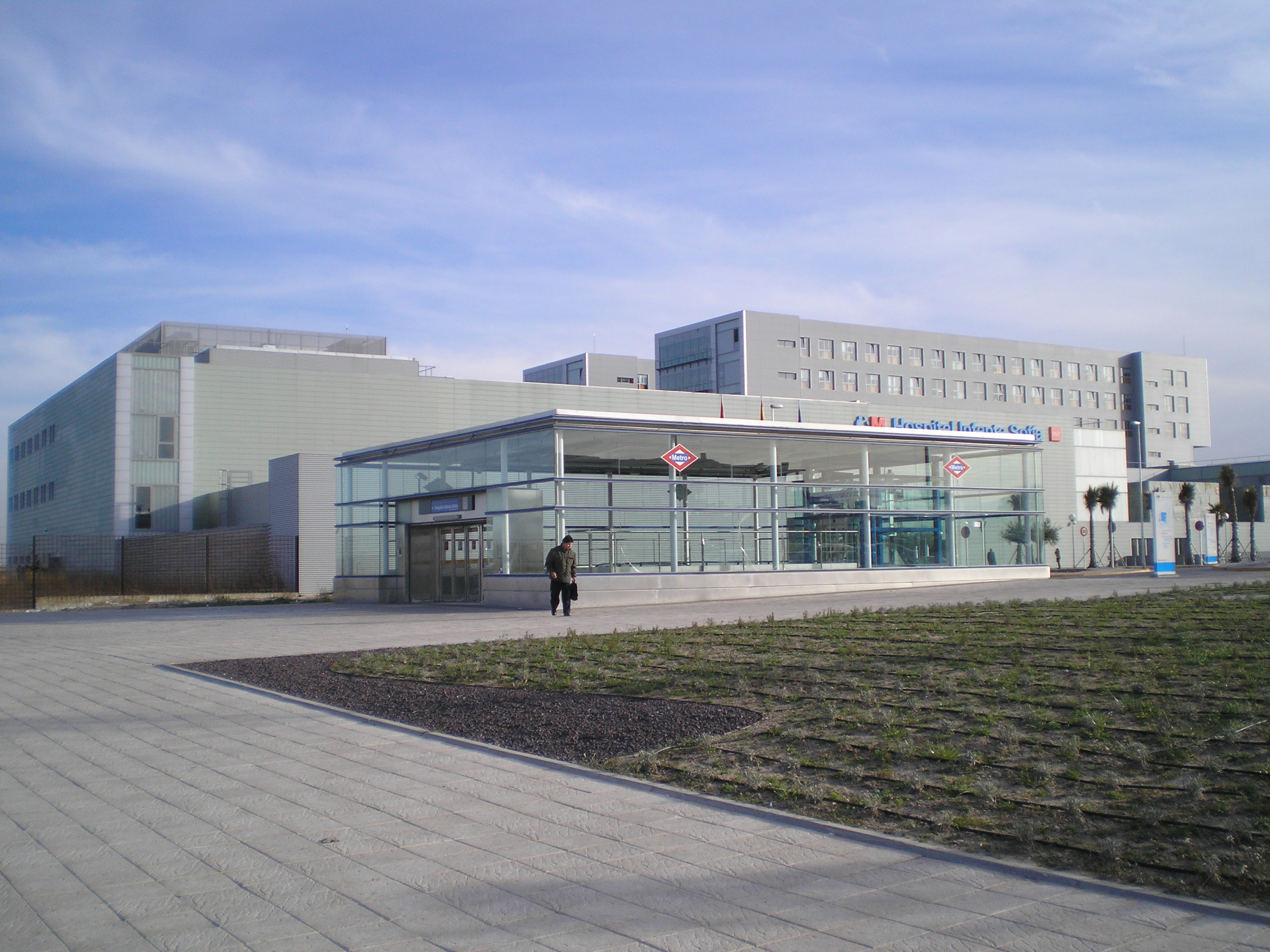 Hospital and underground station Infanta Sofía in San Sebastián de los Reyes, Madrid.